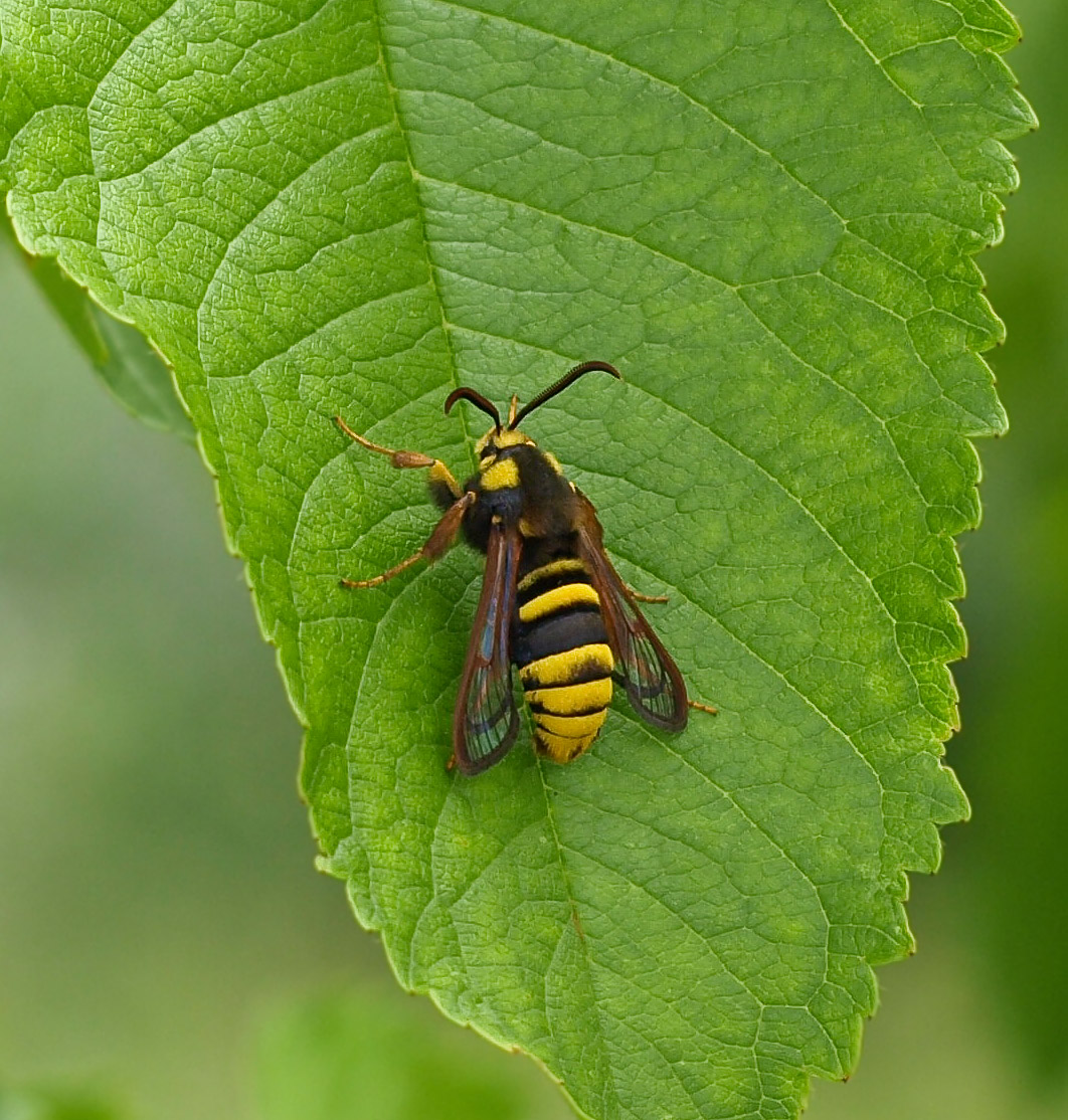 A Hornet Moth sitting on a leaf.